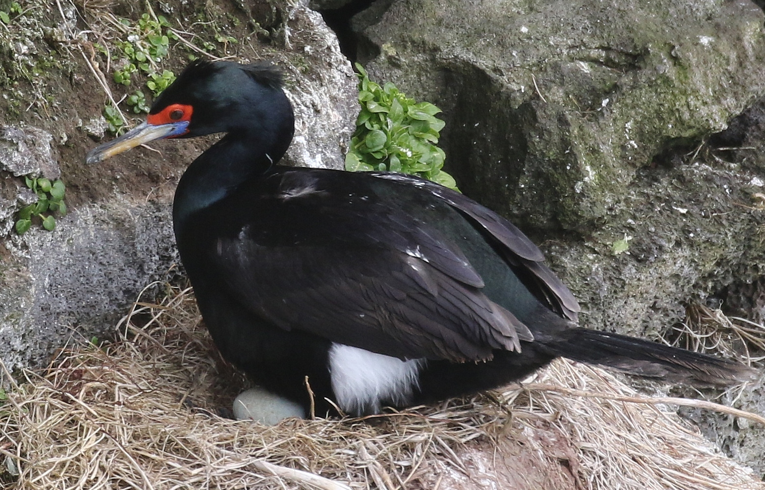 Red-faced cormorant on nest